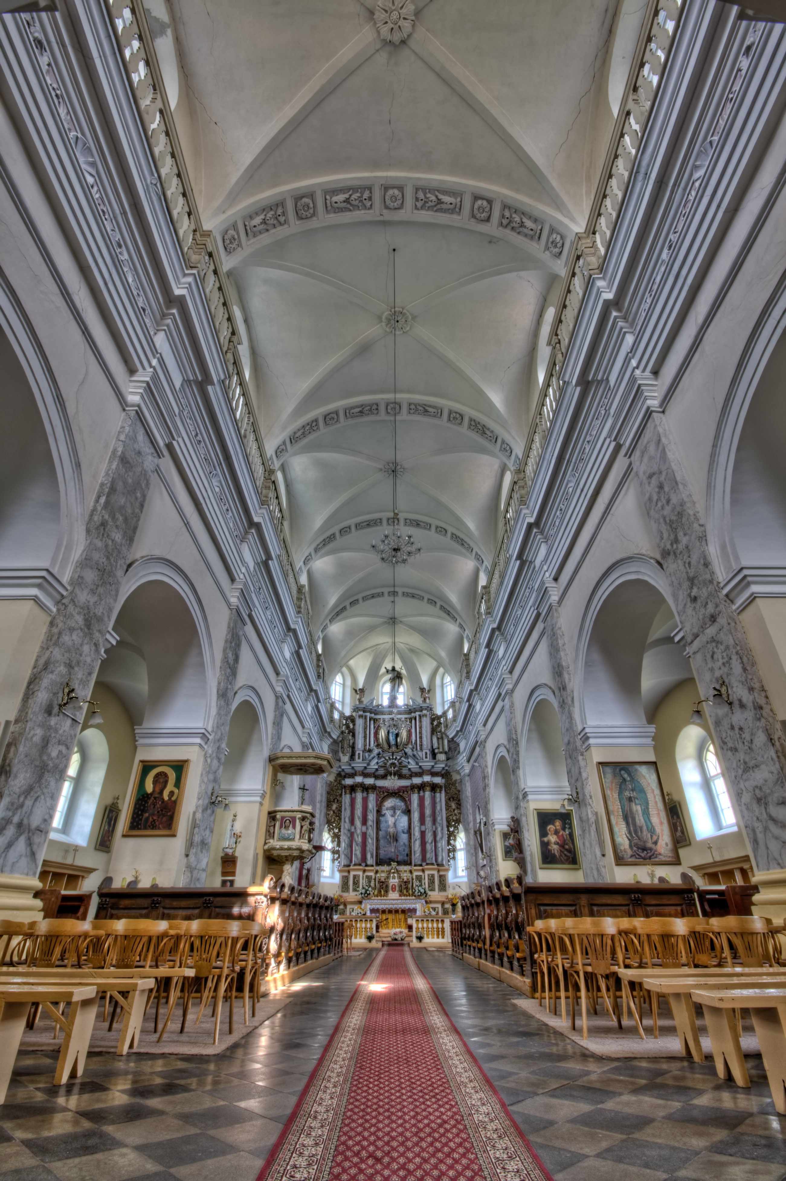 Skaistkalne catholic church interior. Skaistkalne, Latvia